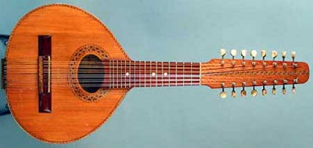 Bandola Andina Colombiana.